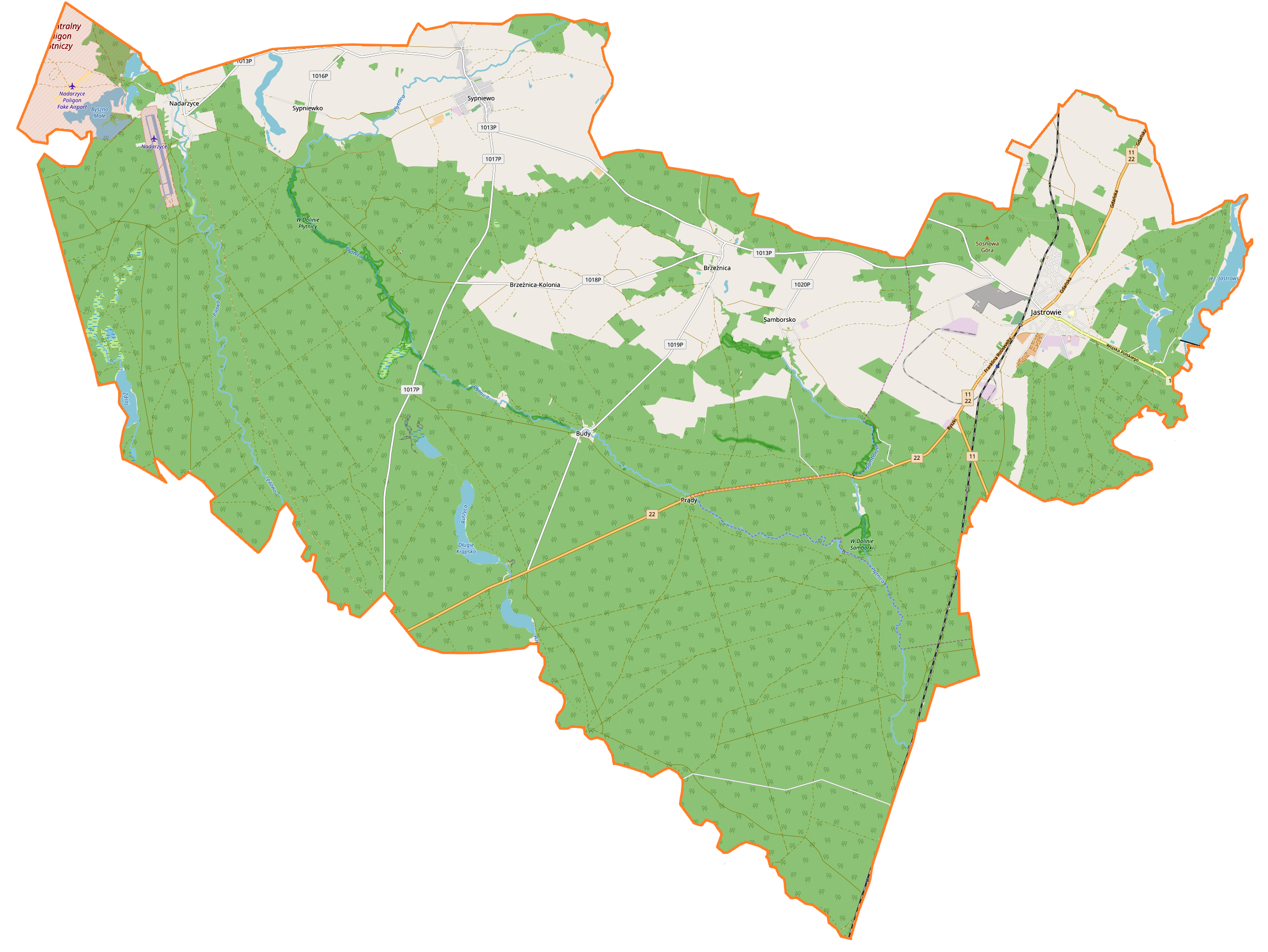 Map of Gmina Jastrowie, Poland This map of Jastrowie (gmina) was created from OpenStreetMap project data, collected by the community. This map may be incomplete, and may contain errors. Don't rely solely on it for navigation.